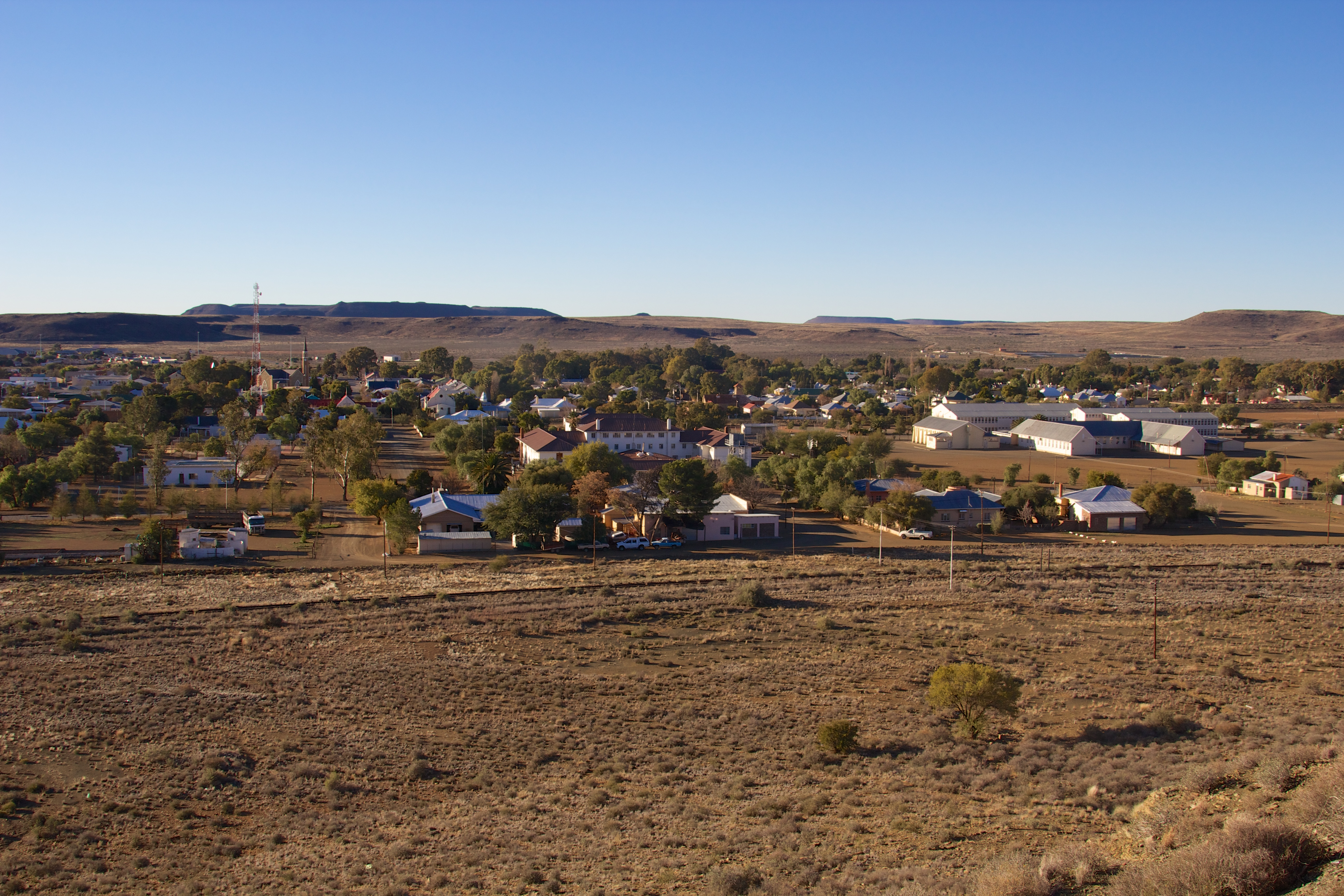 Carnarvon, Northern Cape.